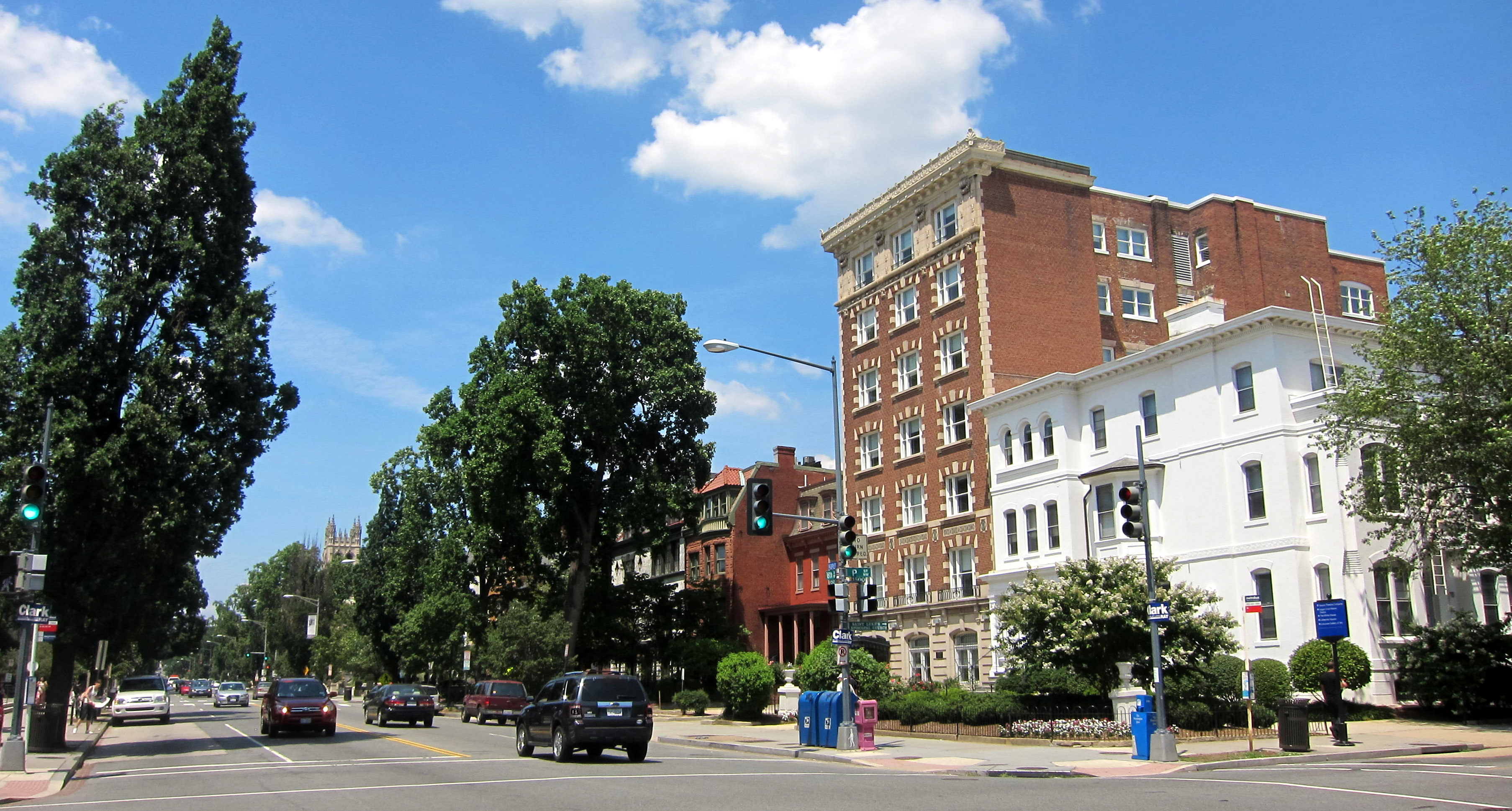 Facing north on the 1500 block of 16th Street, N.W., (intersection of 16th and P Streets) in the Dupont Circle neighborhood of Washington, D.C.